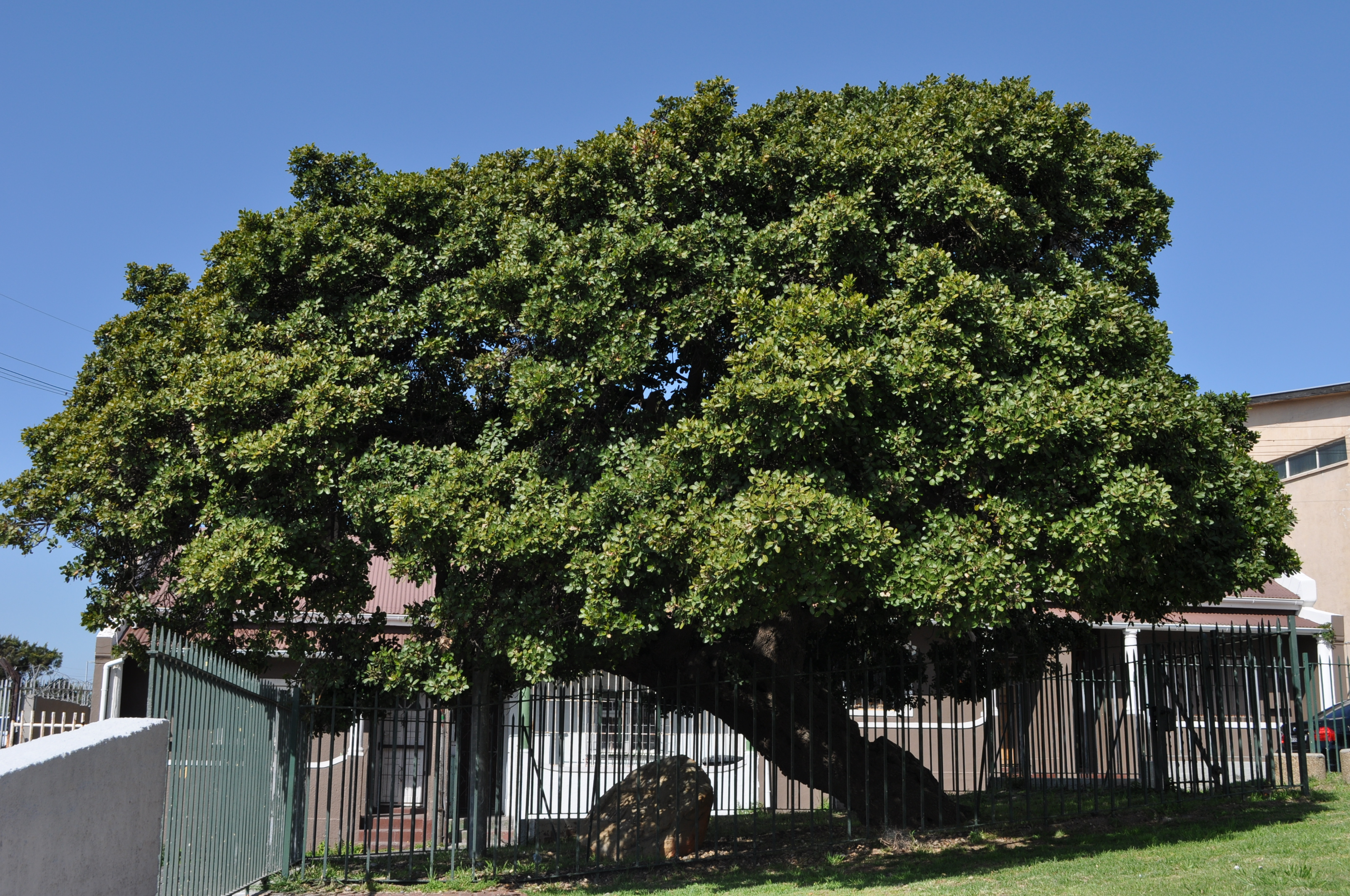 This Milkwood tree is a national monument as it stood in the garden of Treaty House (demolished in 1935) when in 1806 a treaty was signed transferring the property of the Batavian Government to the British. This media shows a South African Protected Site with SAHRA file reference 9/2/018/0229.